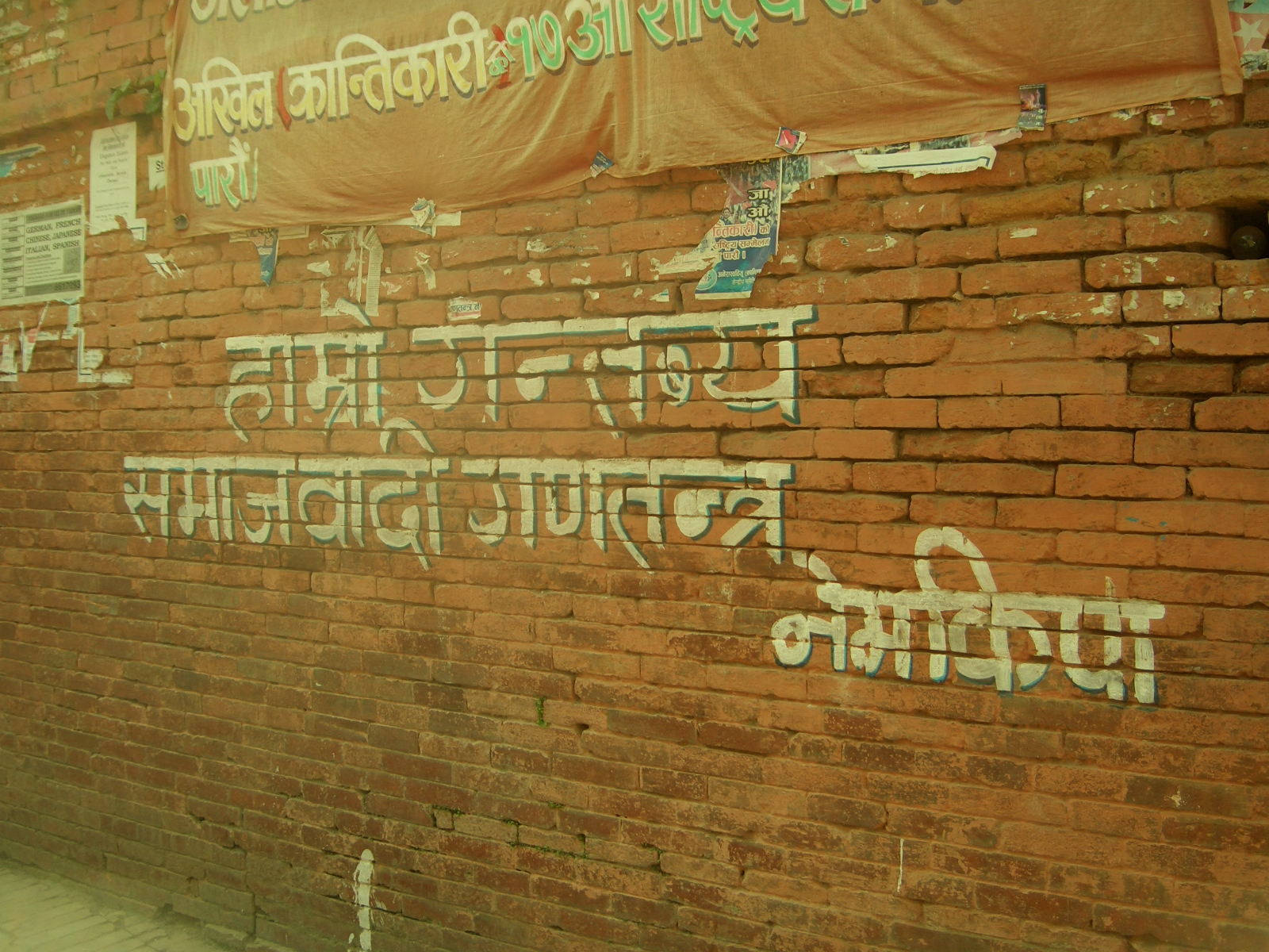 Photo: Soman